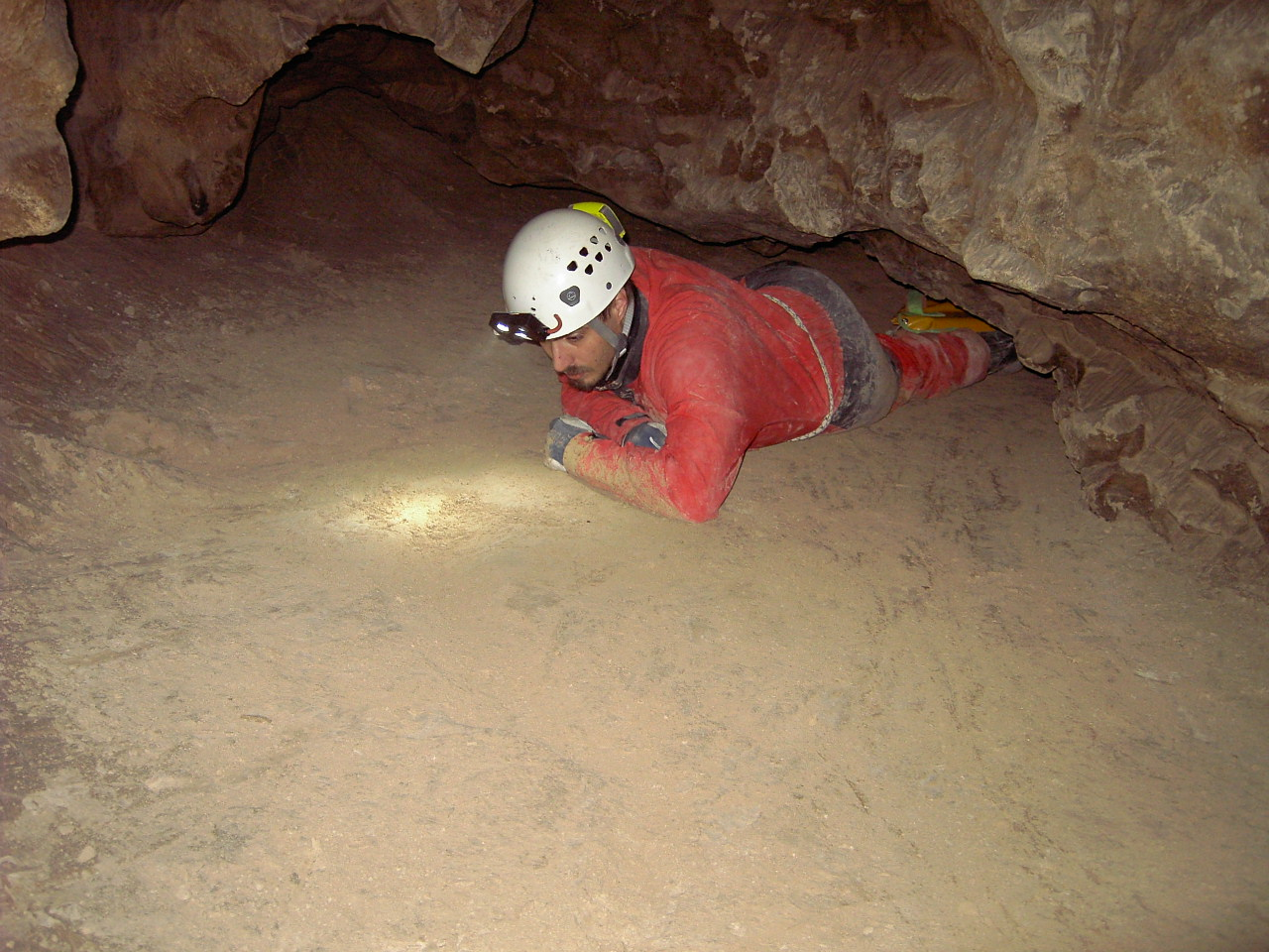 Benedikt Hallinger leaves a narrow passage (Schluf inside the Hirlatz Cave).